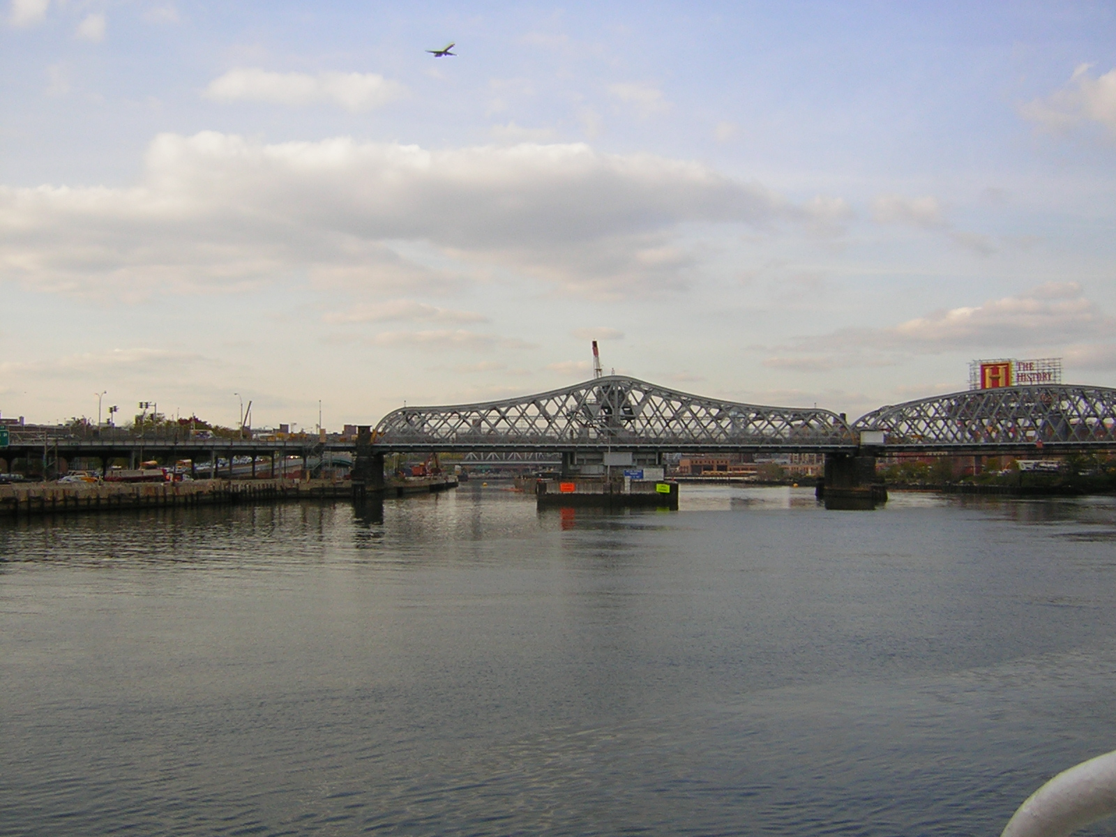 Willis Avenue Bridge, from Circle Line boat just out from under Triboro Bridge on a chilly day